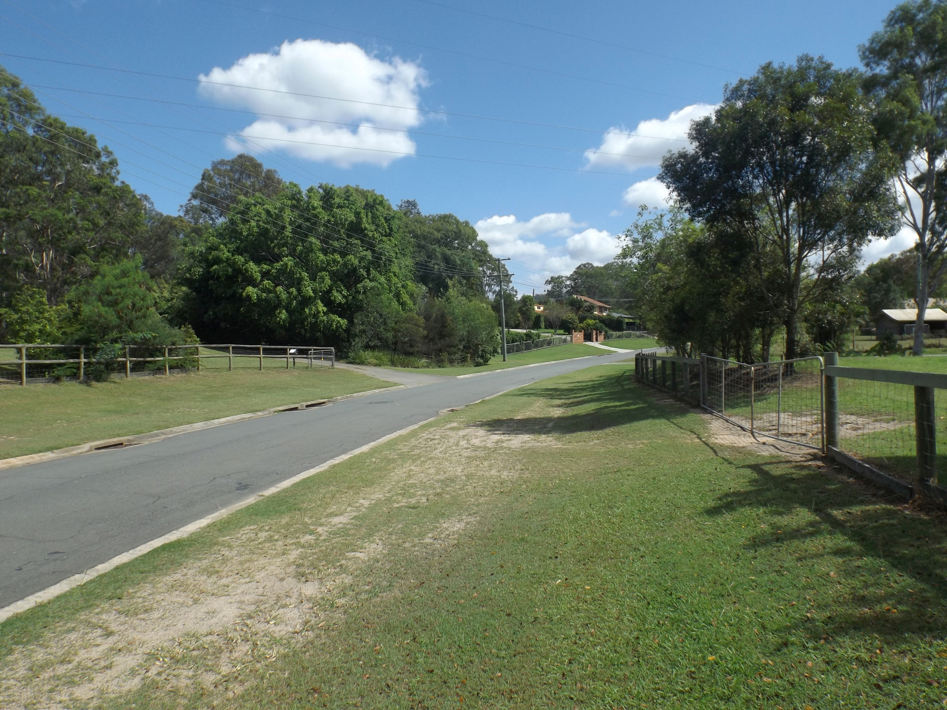 Photo of Richland Drive at at Bannockburn, City of Logan, Queensland, Australia.